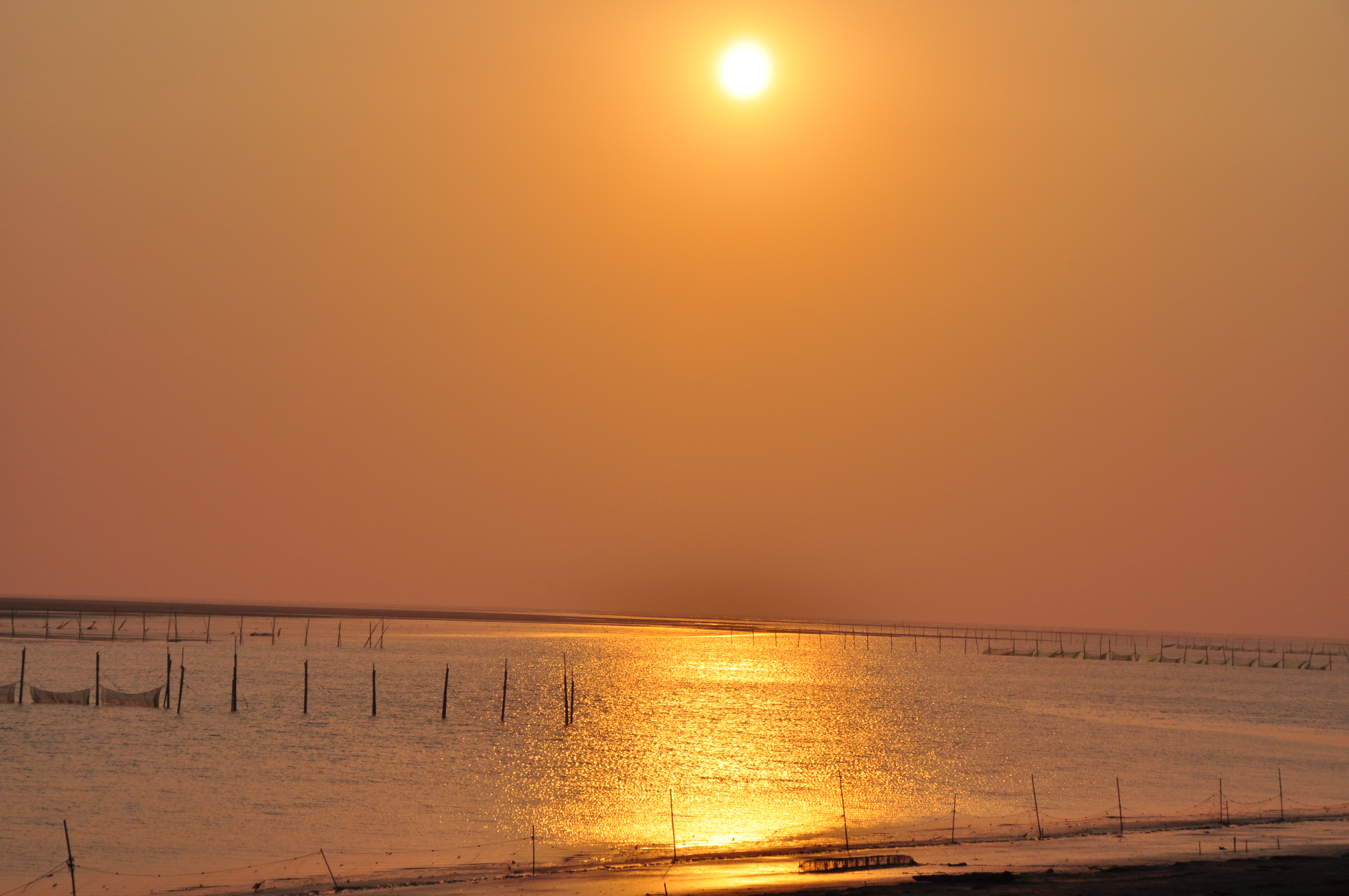 A sunset on the estuary of Wu River in Taichung County, Taiwan. The photo was taken on March 29, 2010.